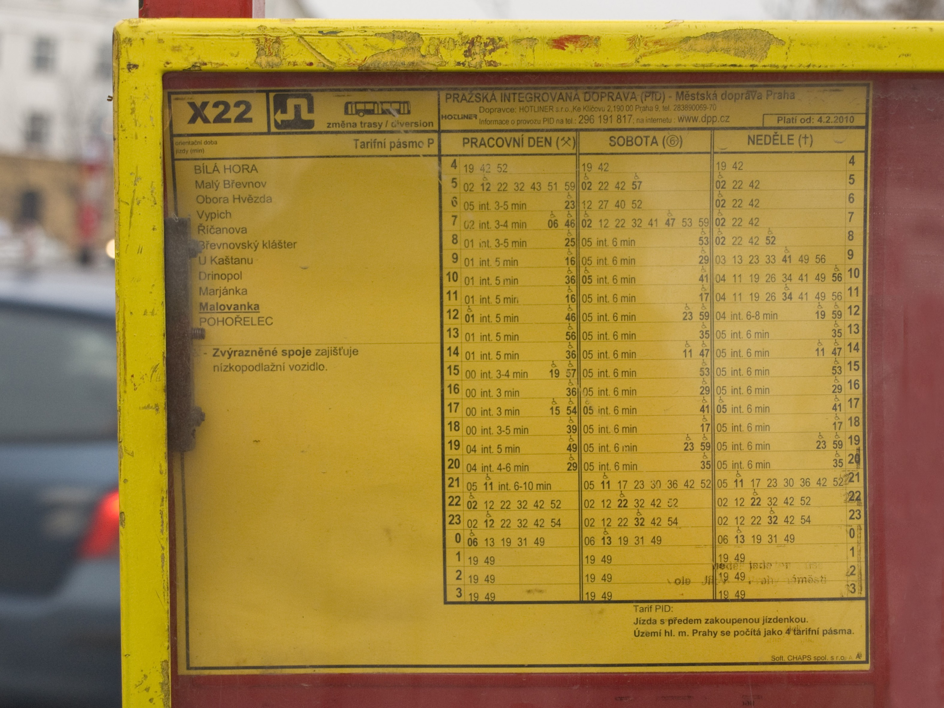 Timetable at Malovanka stop, Reconstruction of tram track Dlabačov - Královka